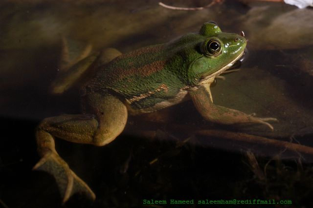 Euphlyctis hexadactylus, India